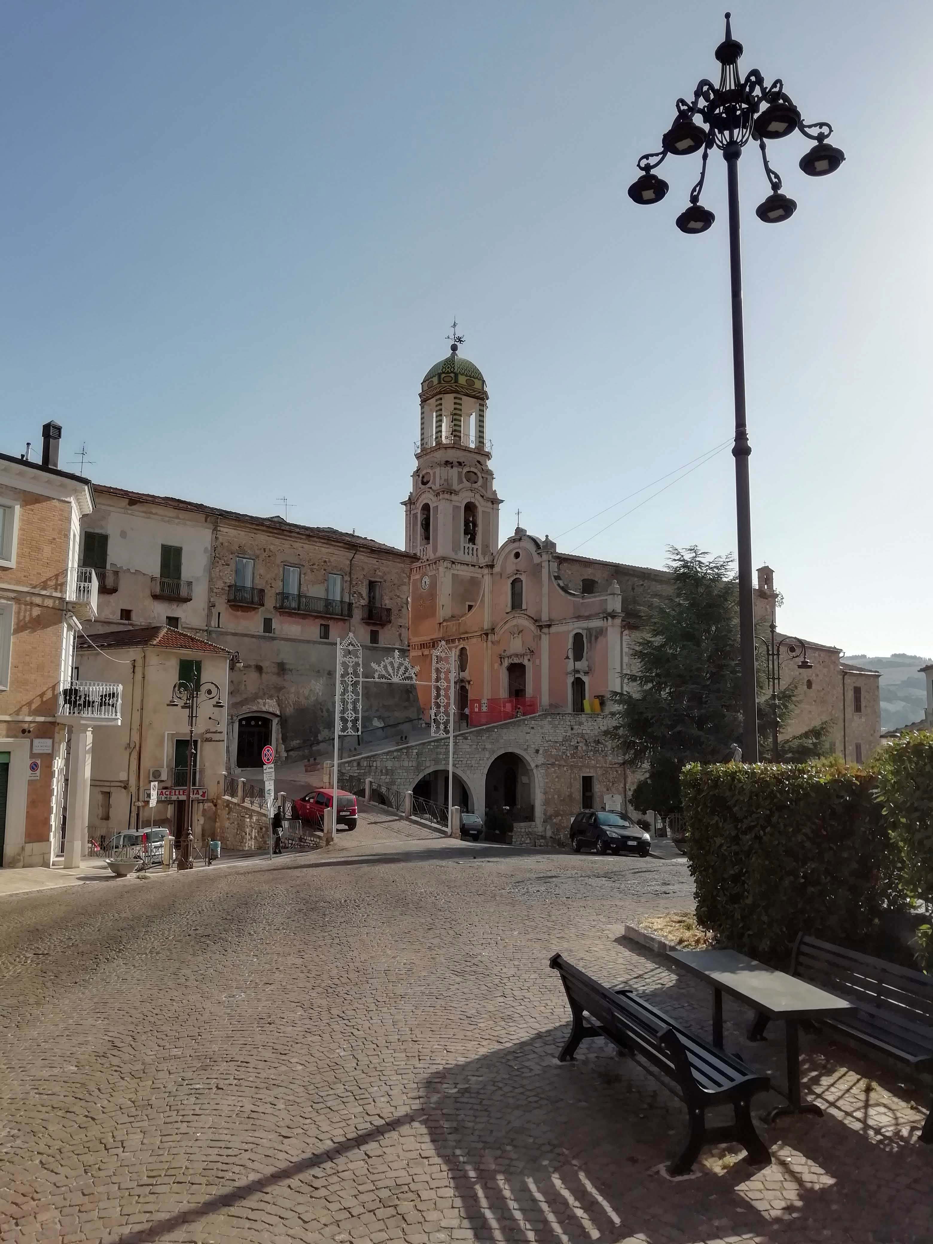 Church of St Mary of the Assumption (Ripalimosani)